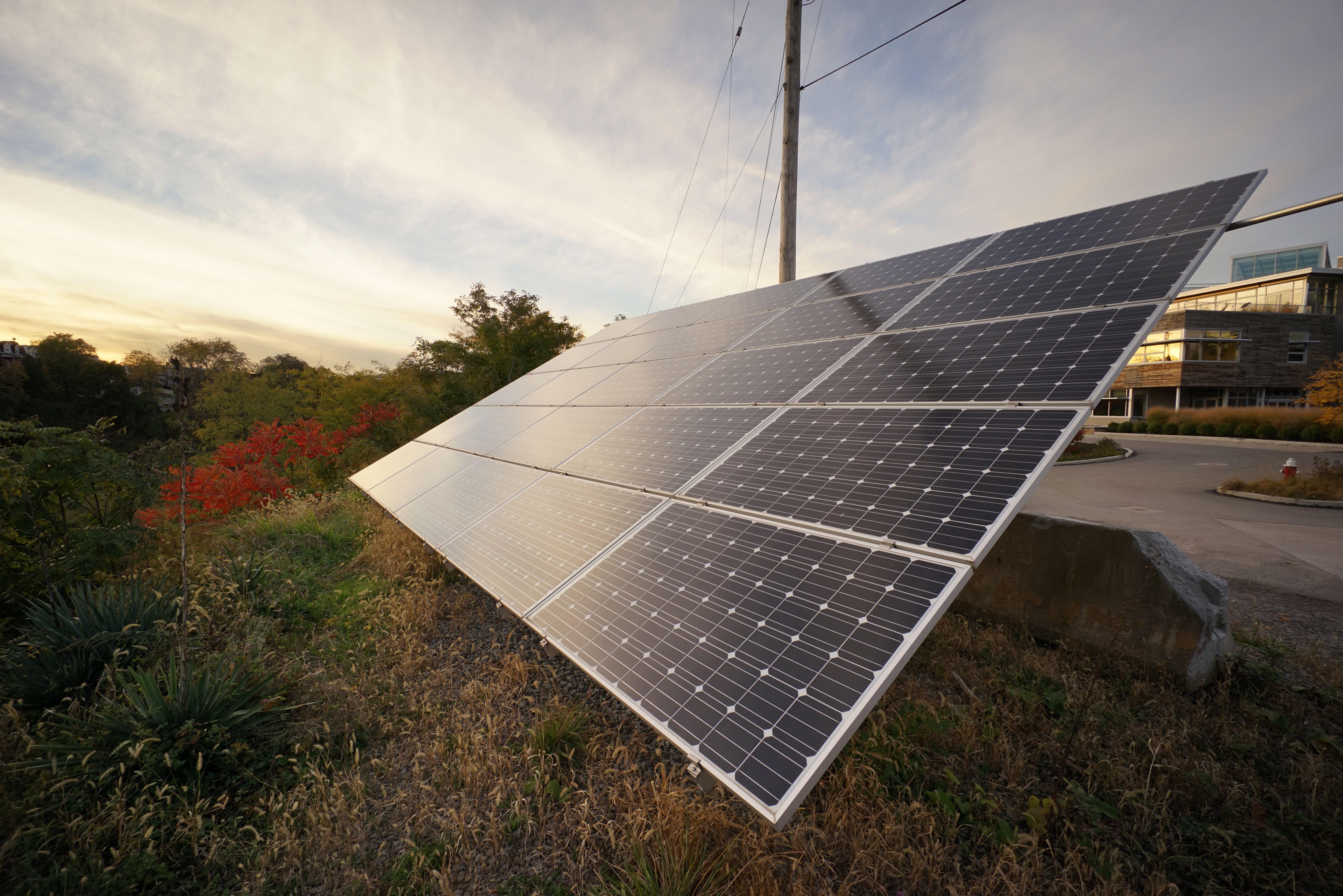 Solar panels at the Center for Sustainable Landscapes at the Phipps Conservatory. The Phipps Conservatory and Botanical Gardens is a complex of buildings and grounds set in Schenley Park, Pittsburgh, Pennsylvania. Founded in 1893, the gardens serve to educate and entertain the people of Pittsburgh with formal gardens.